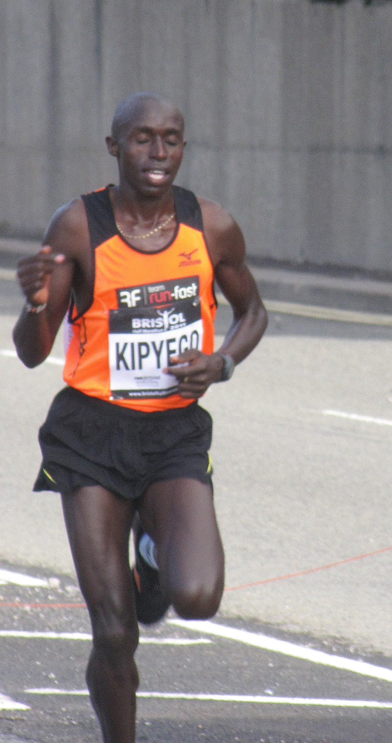 Edwin Kipyego of Kenya, winner of the 2011 Bristol Half Marathon